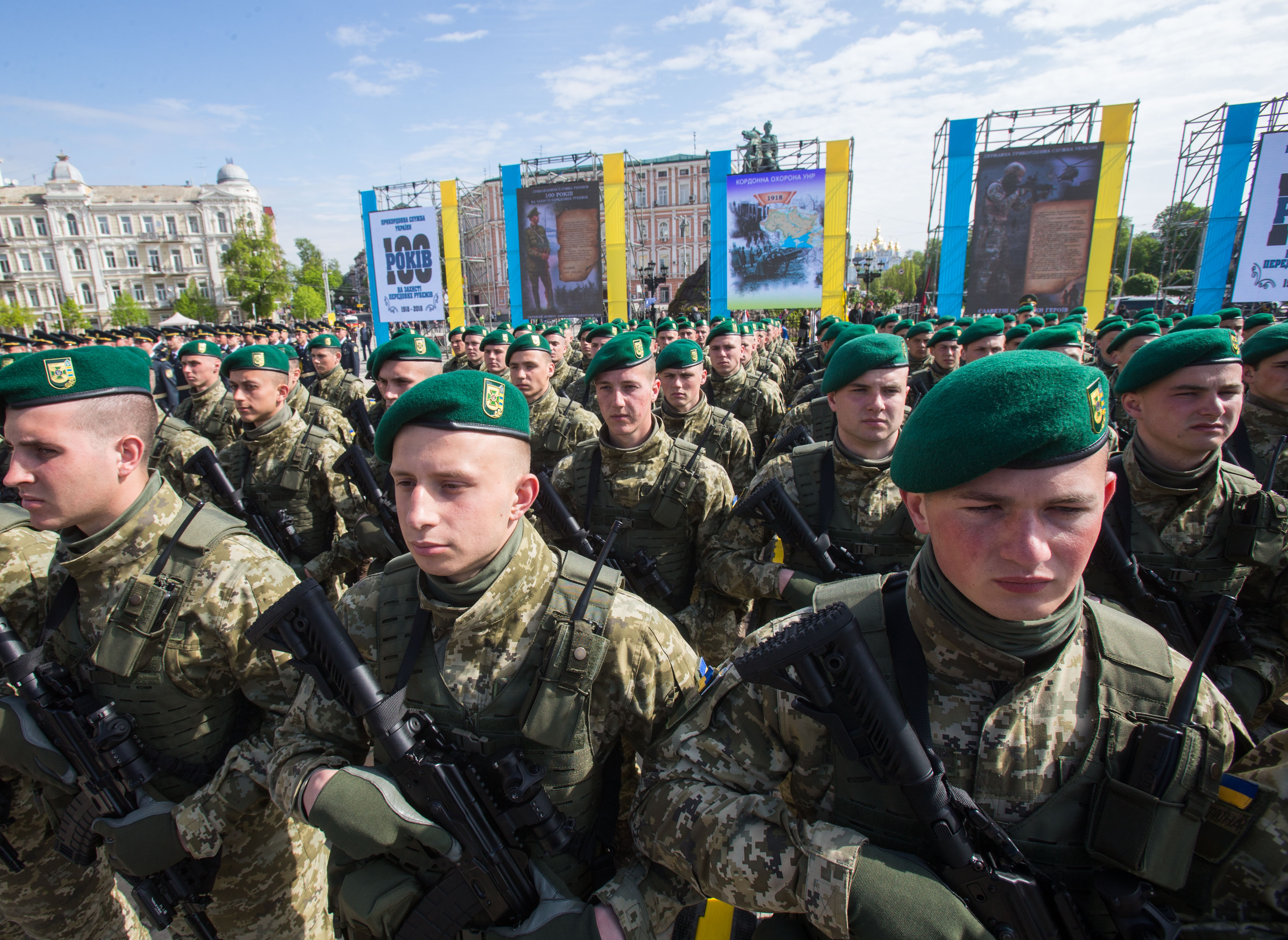 The celebration of 100 years of Ukrainian Border Guards foundation, Kyiv, 2018